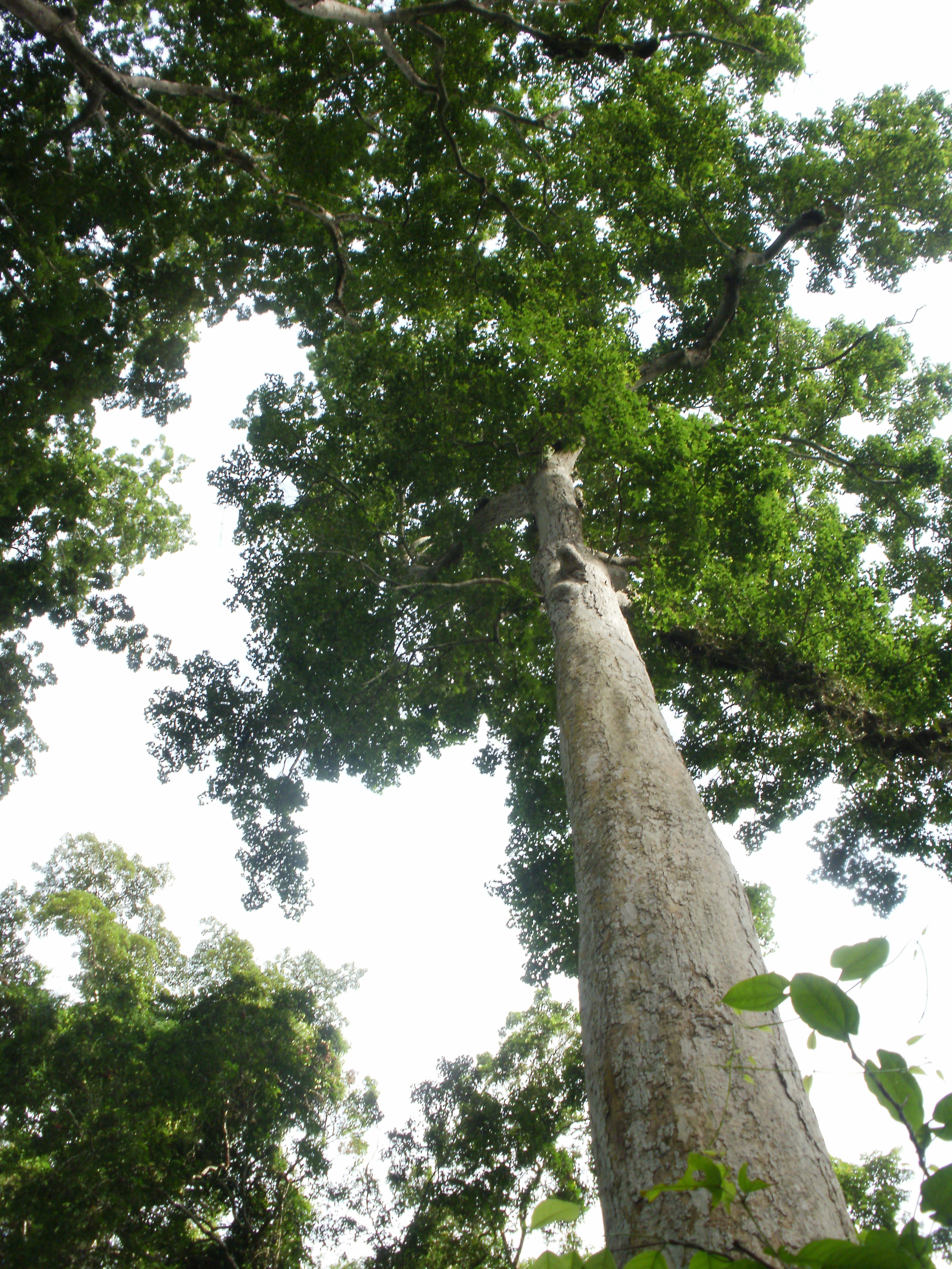 Tallest tree in Bia Forest